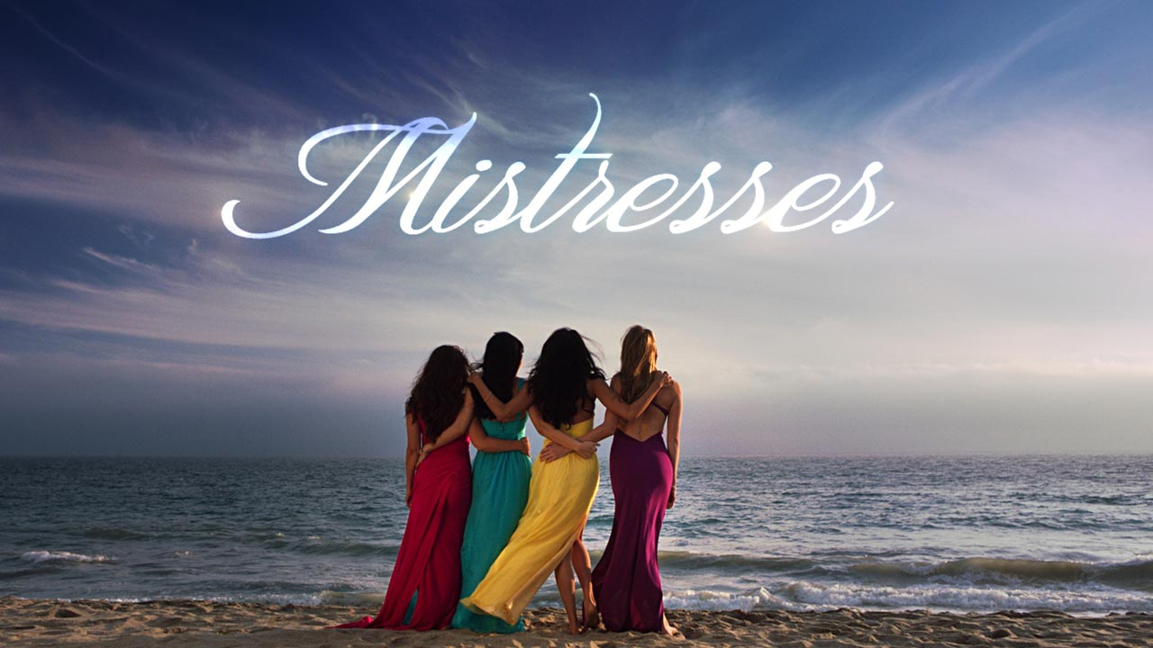 Mistresses ABC Title Card